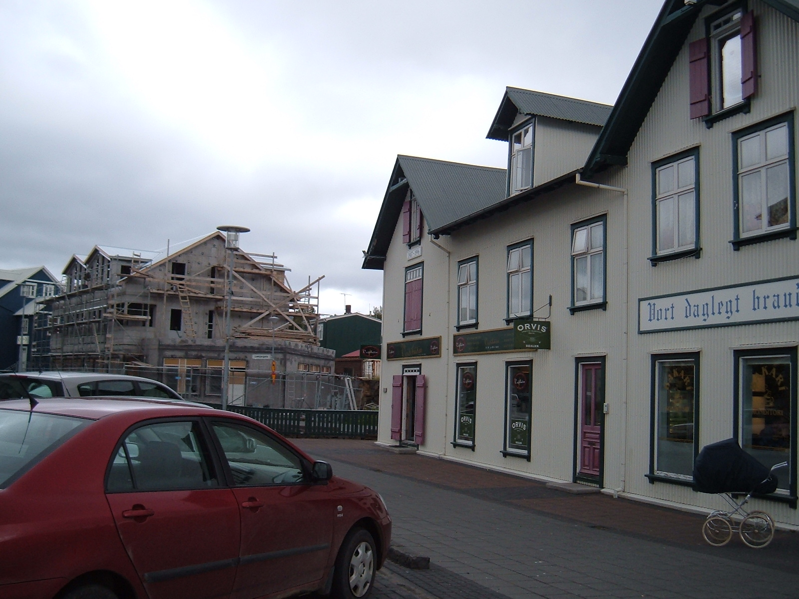 Strandgata street which is located in Miðbæ (Downtown) in Hafnarfjörður, Iceland